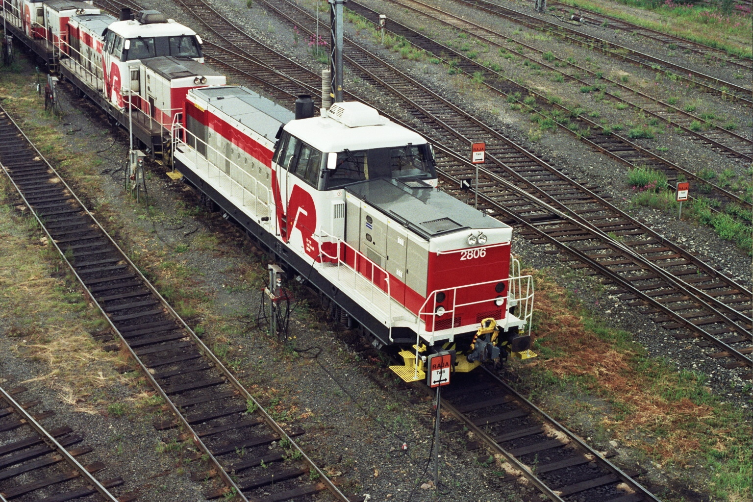 A Finnish diesel locomotive, VR class Dr16, number 2806, near the engine shed of VR in the city of Oulu in Finland. The locomotive has obviously been renovated in 2008/2009.